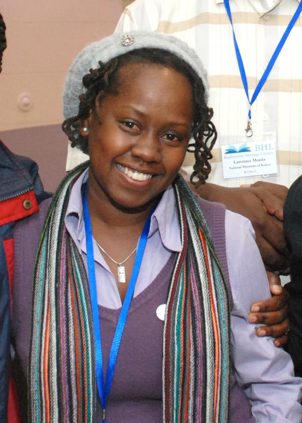 The Kenyan scientist Dorothy Wanja Nyingi, cropped from a group photo